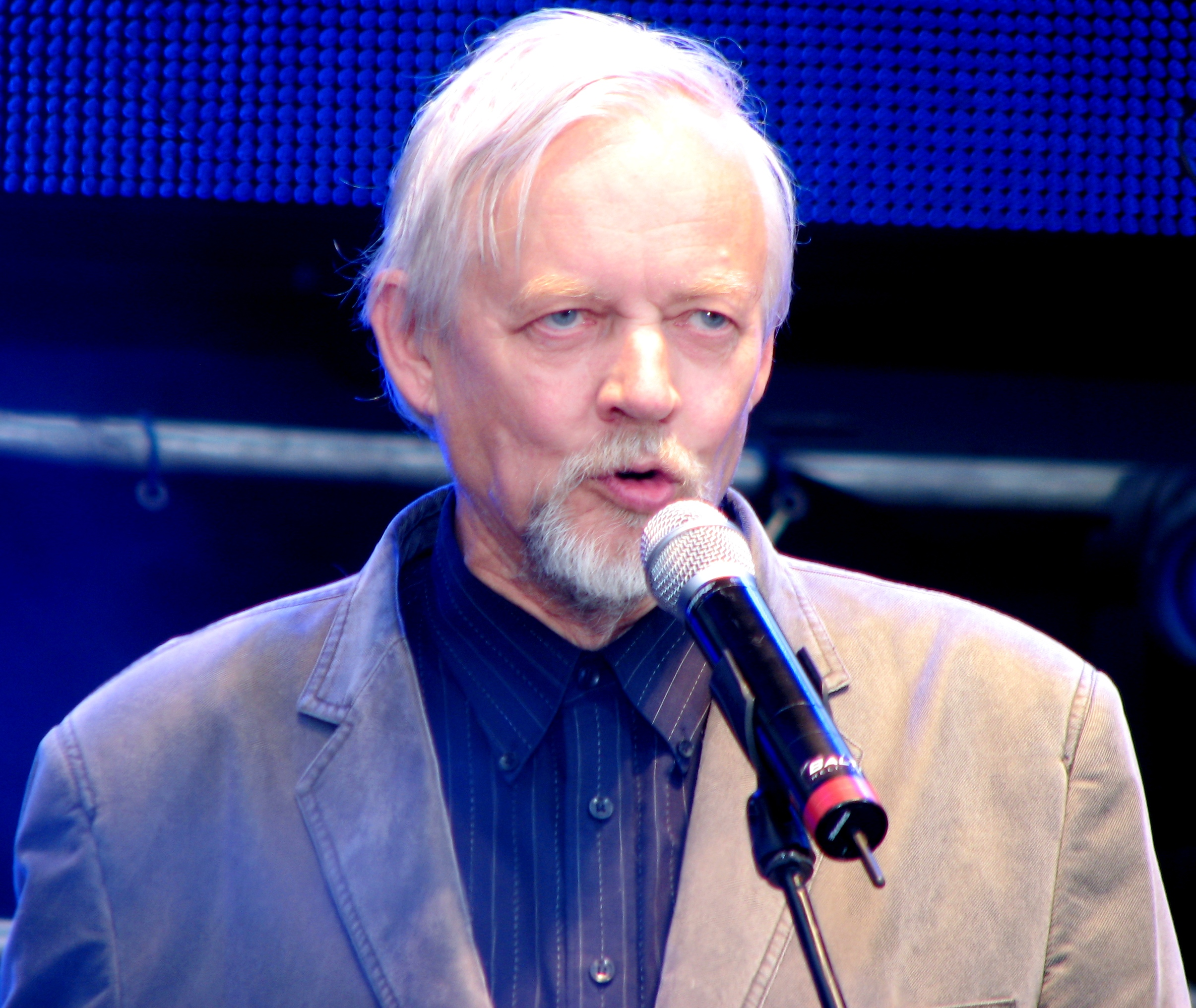 Andres Ehin performing in Grand Slam in Tallinn